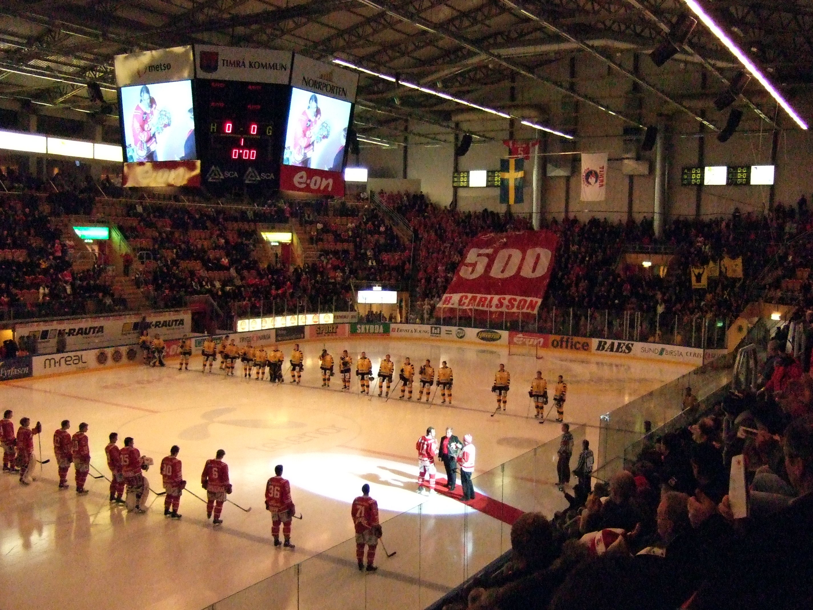 500th game celebration of ice hockey player Robert Carlsson of Timrå IK in E.ON Arena, Timrå, Sweden during the Swedish Elite League game Timrå IK-Skellefteå AIK (1-2).